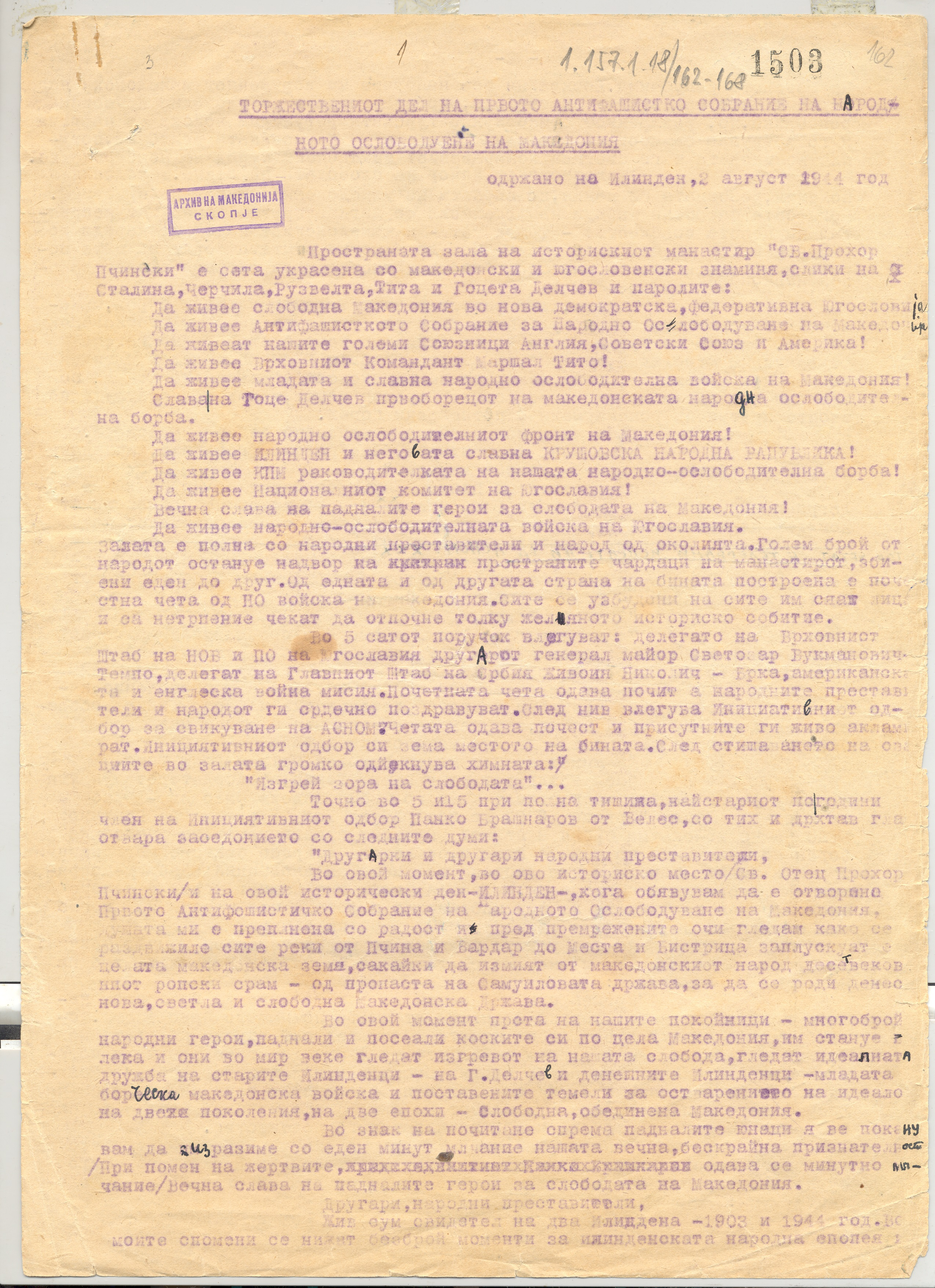 The formal part of the opening of 1st Session of Antifascist Assembly of the National Liberation of Macedonia (ASNOM) with the welcoming speech of Panko Brashnarov This media file is produced by Wikipedian in Residence in Category:Wikipedian in Residence at DARM in 2016.